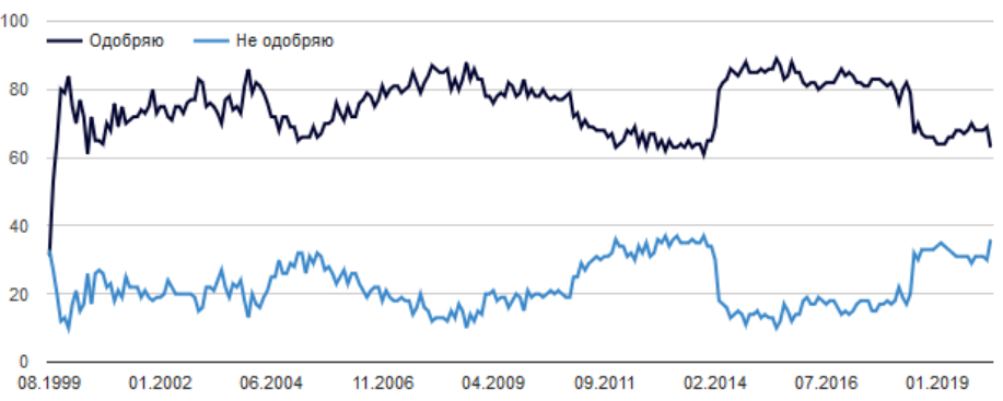 Putin's confidence rating 2000 - 2020